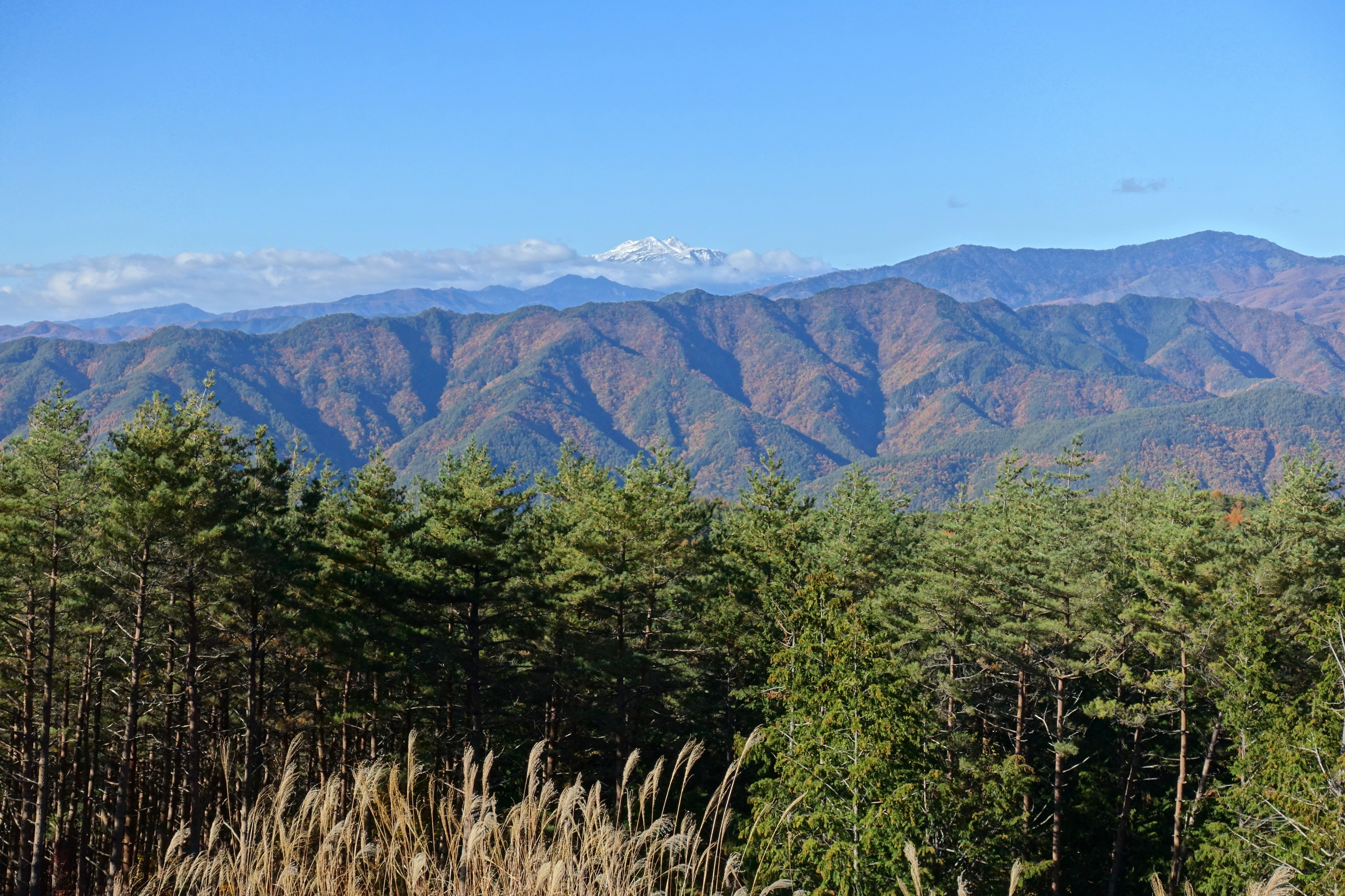 View of Mount Norikura from Kiso Valley in autumn. Mount Norikura is the third tallest volcano in Japan. The view is from Kibio Pass.